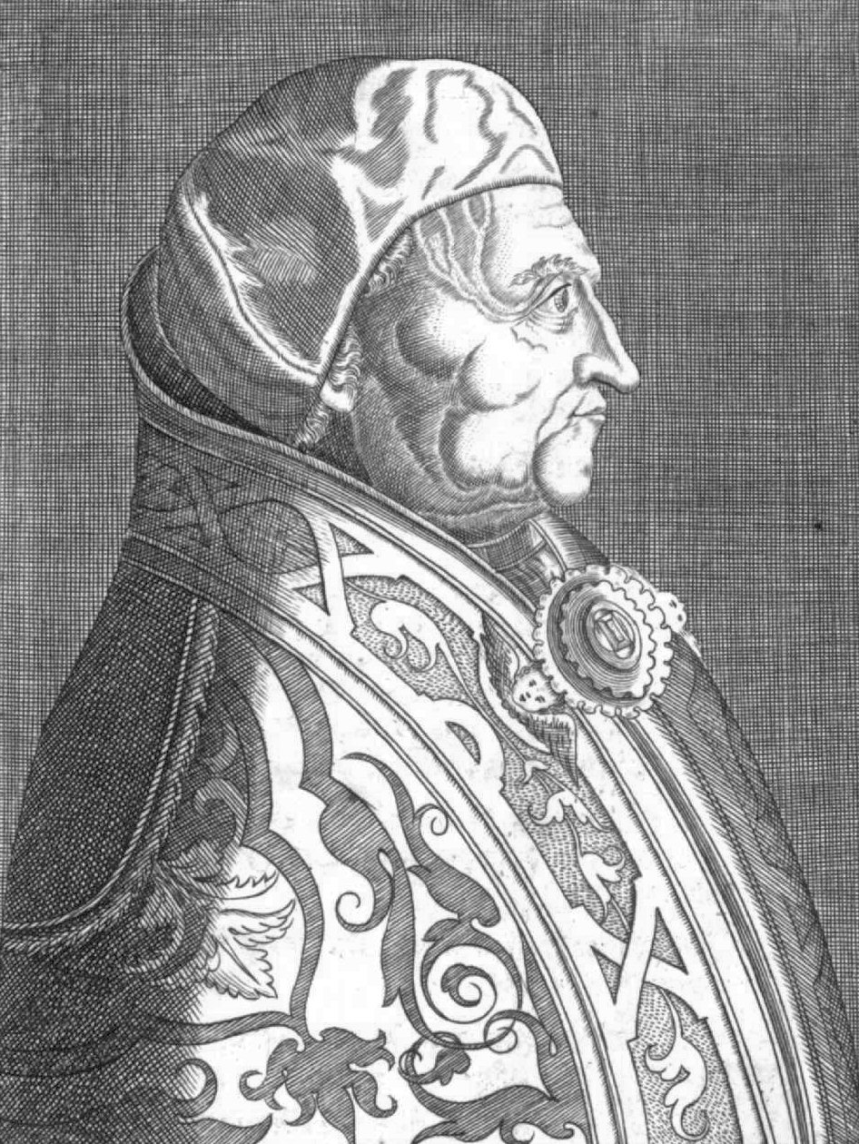 Pope Pius II